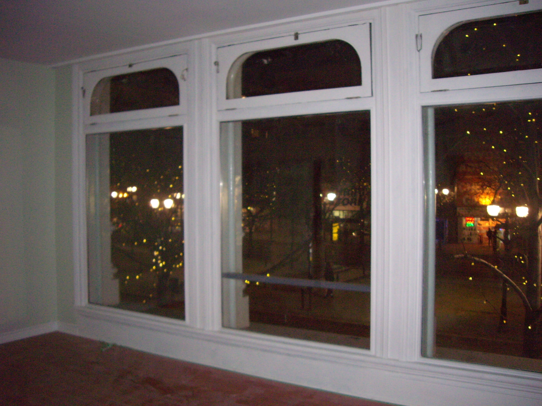 Facing North